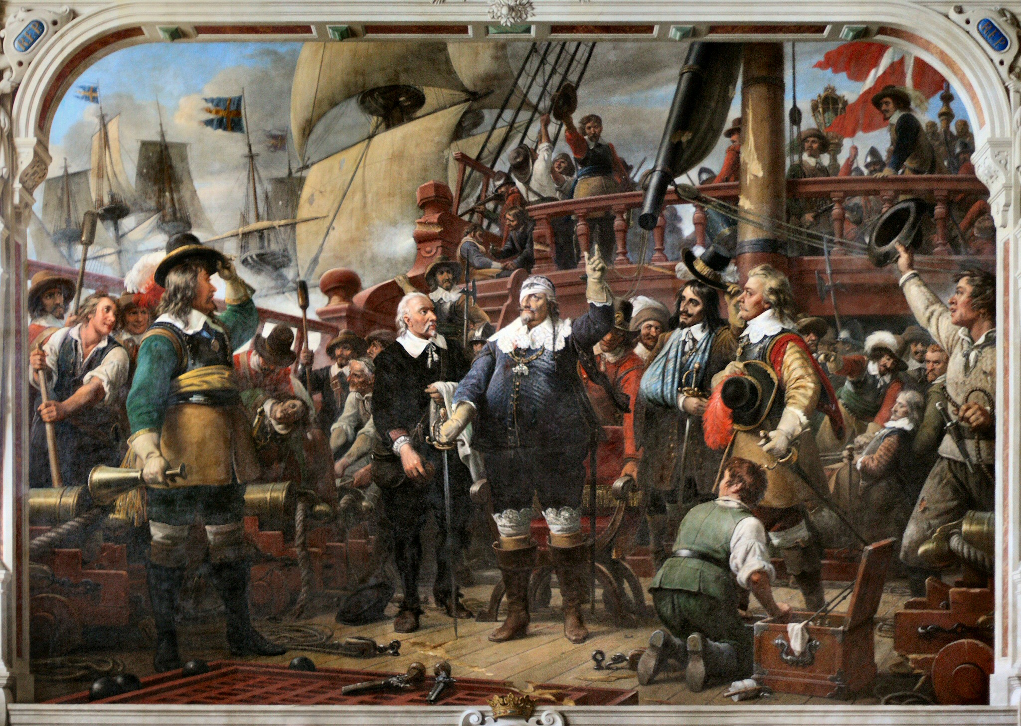 Christian IV of Denmark on the ship "Trefoldigheden" in the Battle of Colberger Heide 1644